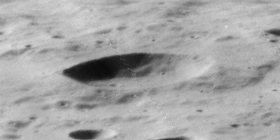 Oblique view of Kuo Shou Ching crater, on the far side of the moon, facing west.